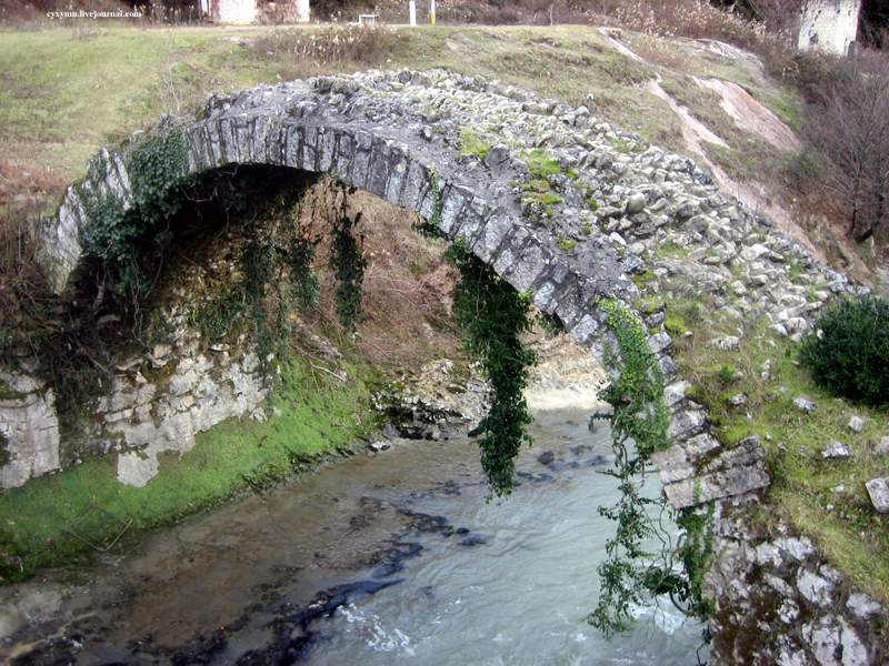 Beslet bridge near Sukhumi, Abkhazia, also known as Queen Tamar bridge.